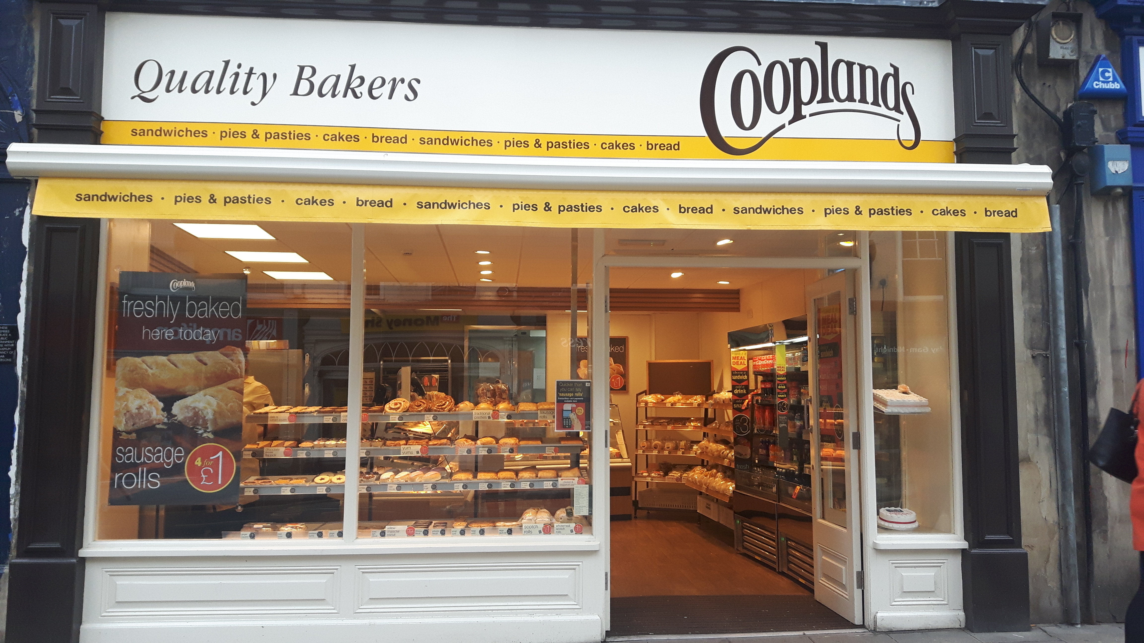 Cooplands Bridge St Shop